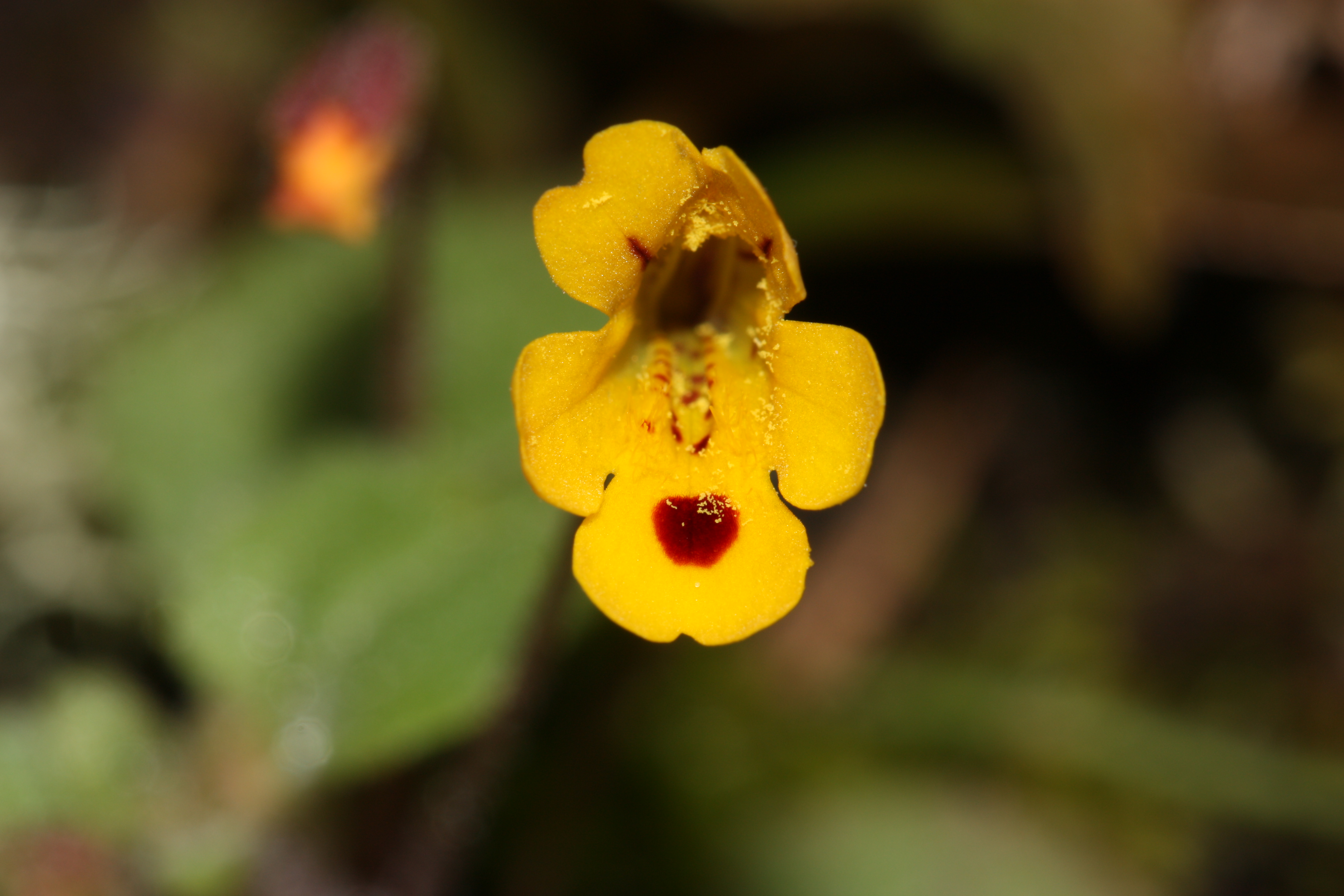 Wing-stem Monkey-flower, Chickweed Monkey-flower.